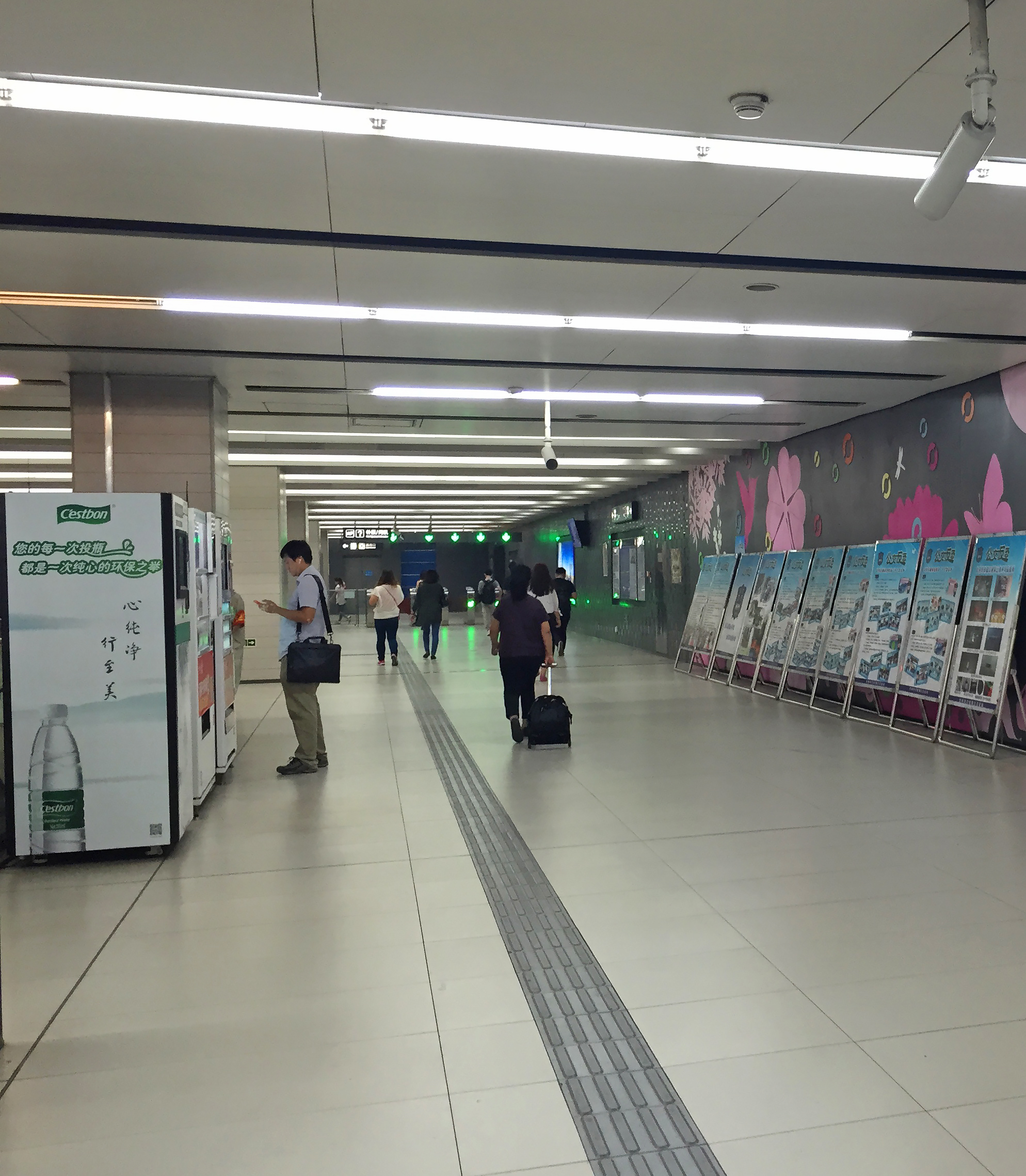 What are you trying to convey, mural-kun?